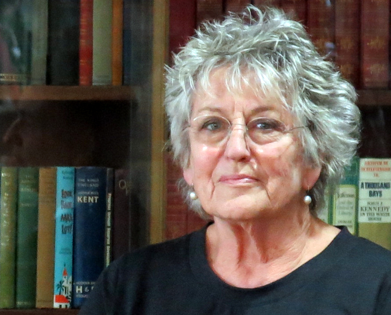 Germaine Greer at the University of Melbourne